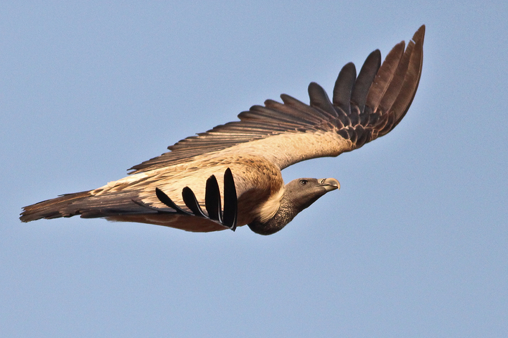 Long-billed Vulture or Indian Vulture